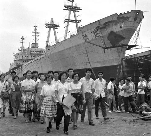 Yue Jin hao,first over-ocean ship made by China.中文（中国大陆）: 这是归国华侨学生在大连造船厂参观正在制造的“跃进号”万吨巨轮.